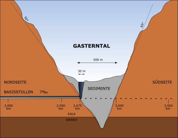 Lötschberg rail Tunnel: callus